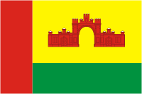 Krasnoarmeisk (Moscow oblast), flag